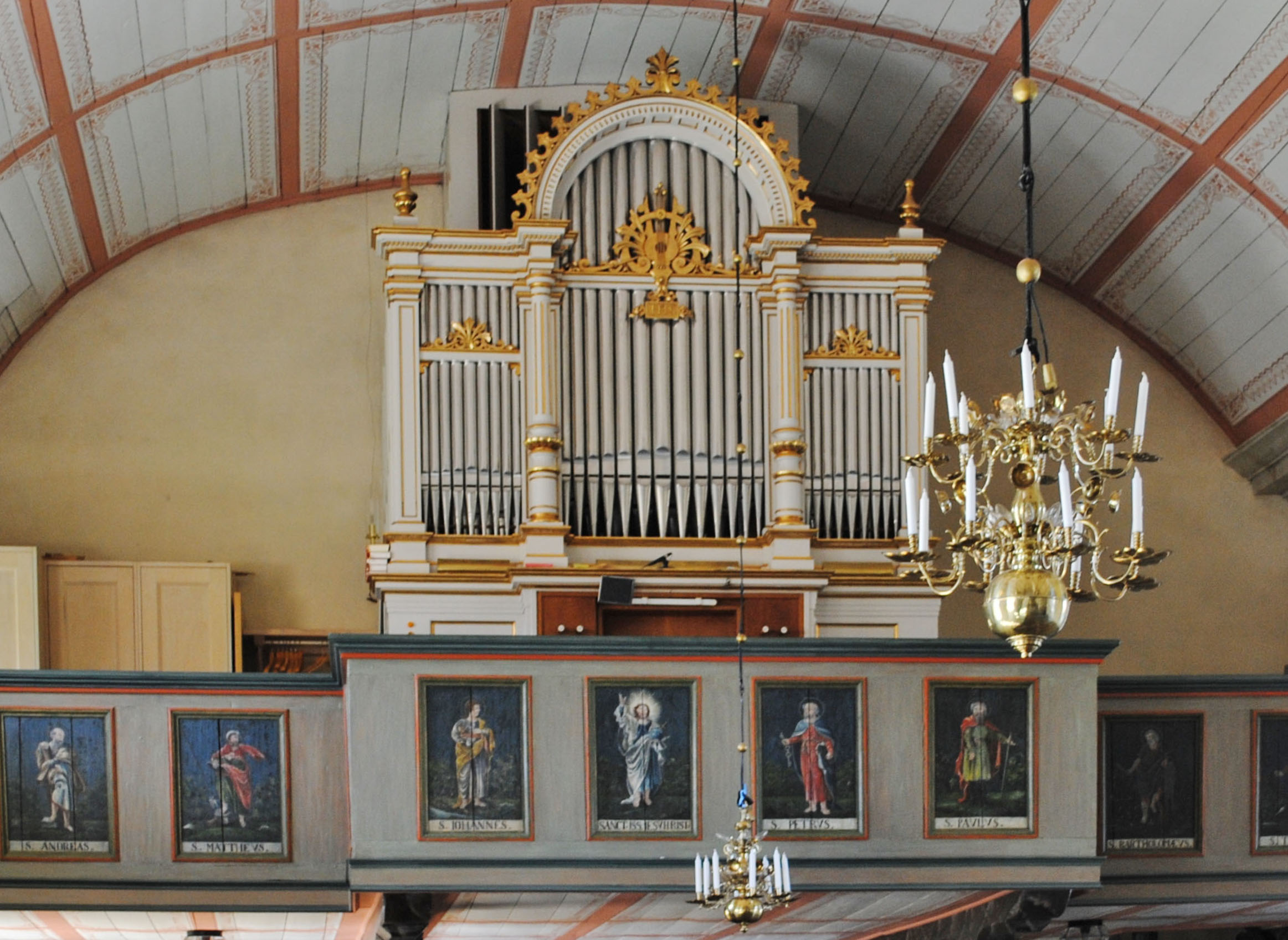 Mortorp Church.The organ